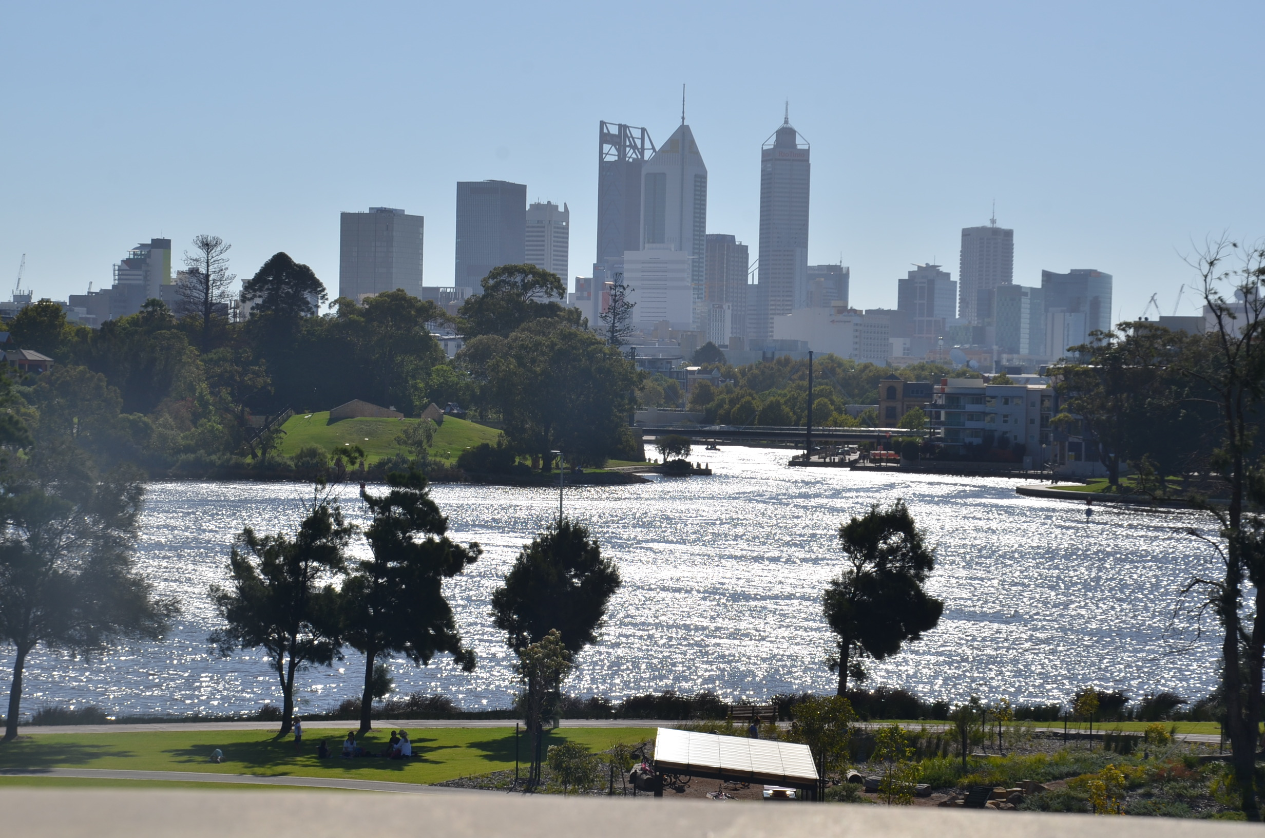 Perth, Western Australia - city skyline from the east, taken from the Perth Stadium, and Claise Brook, East Perth